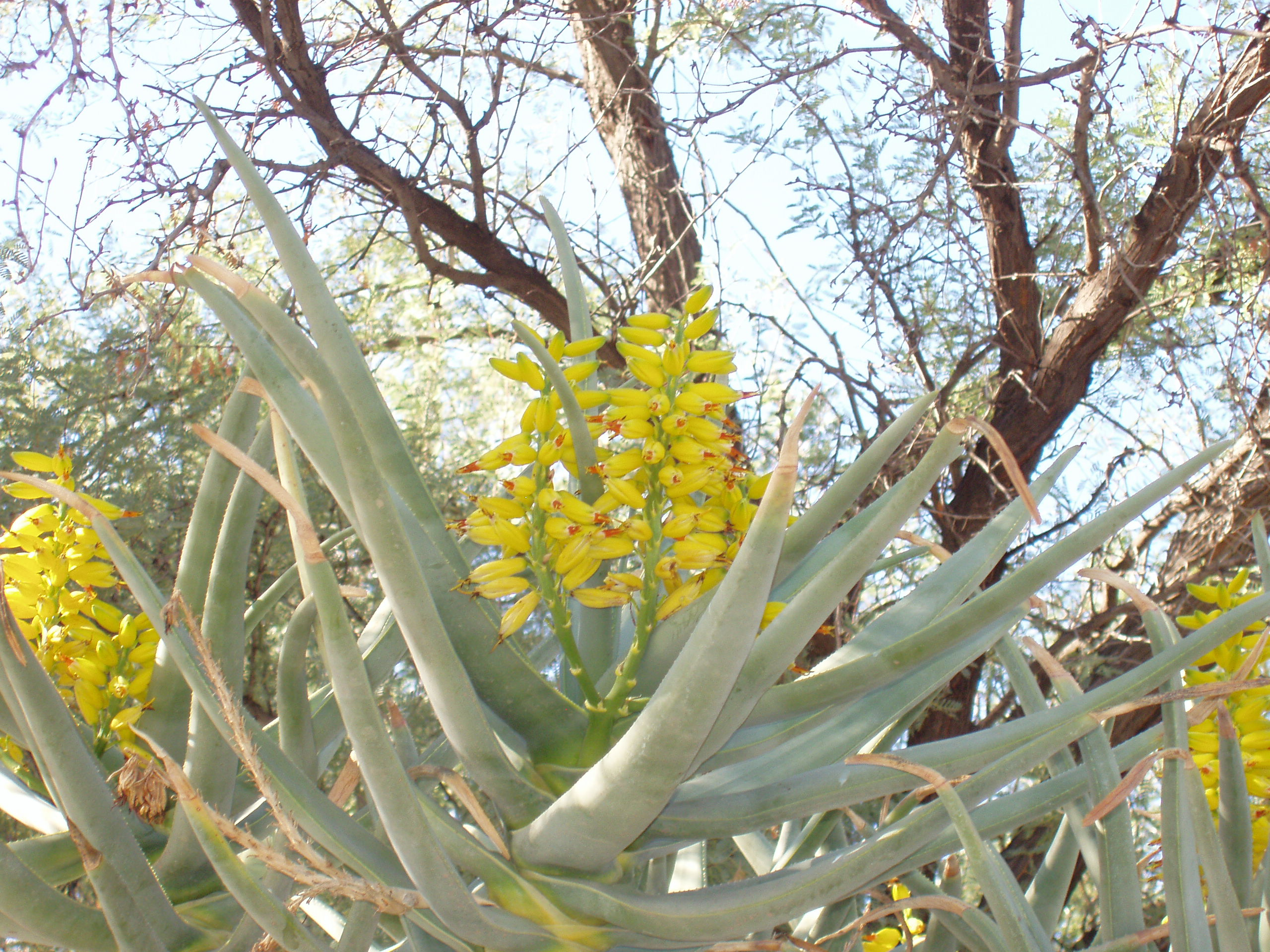 Aloe dichotoma, taken at the Desert Botanical Garden in Phoenix, Arizona, USA